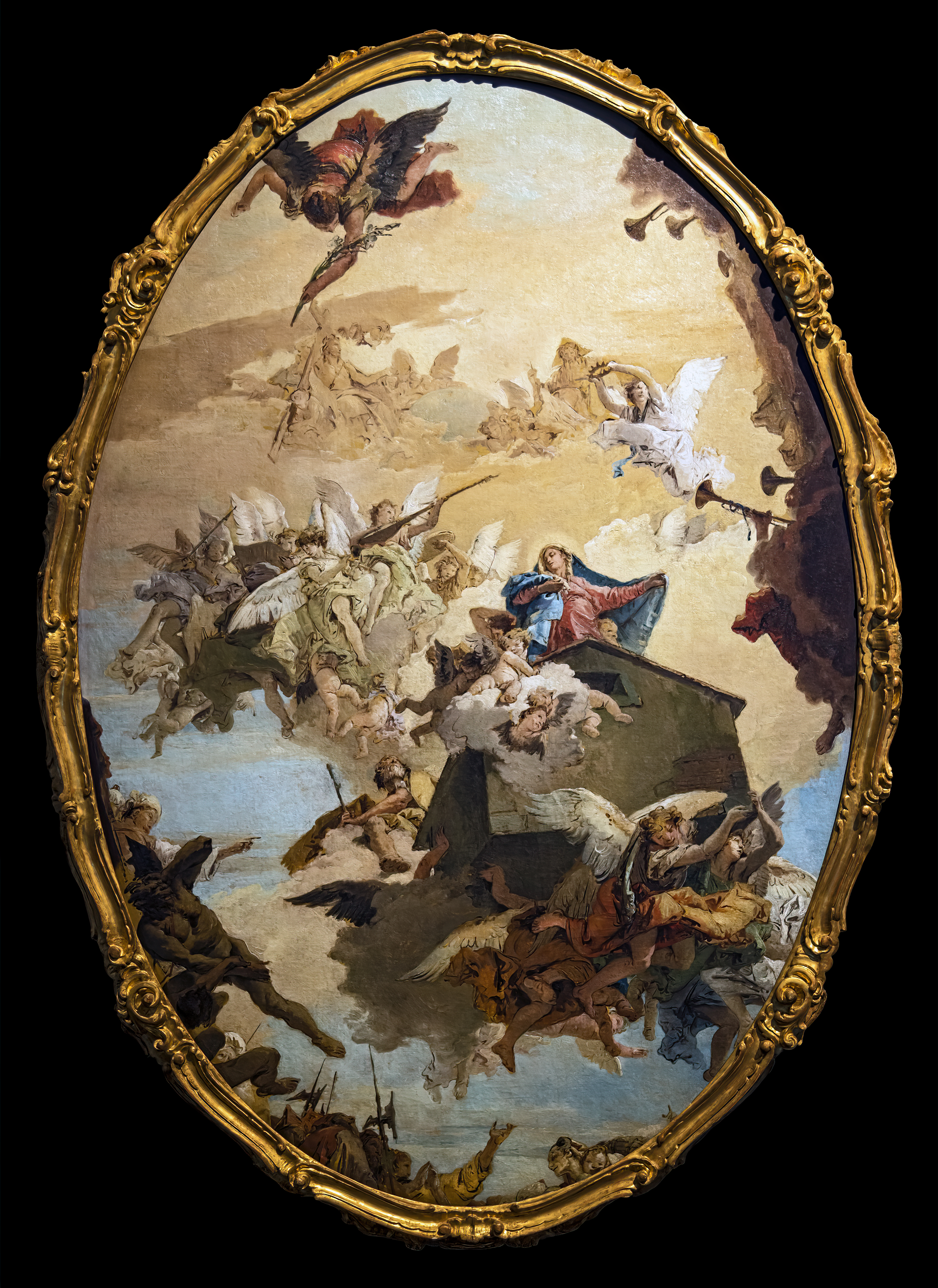 Trasporto della Santa Casa di Loreto (Transportation of the Holy House of Loreto) by Giambattista Tiepolo (1743), Gallerie dell'Accademia in Venice. Colors on canvas. Crespano (Treviso), private oratory; Coll. Antonio Dal Zotto. acquisition, 1930. Size: 124 × 85 cm. Inventory number: Cat.911